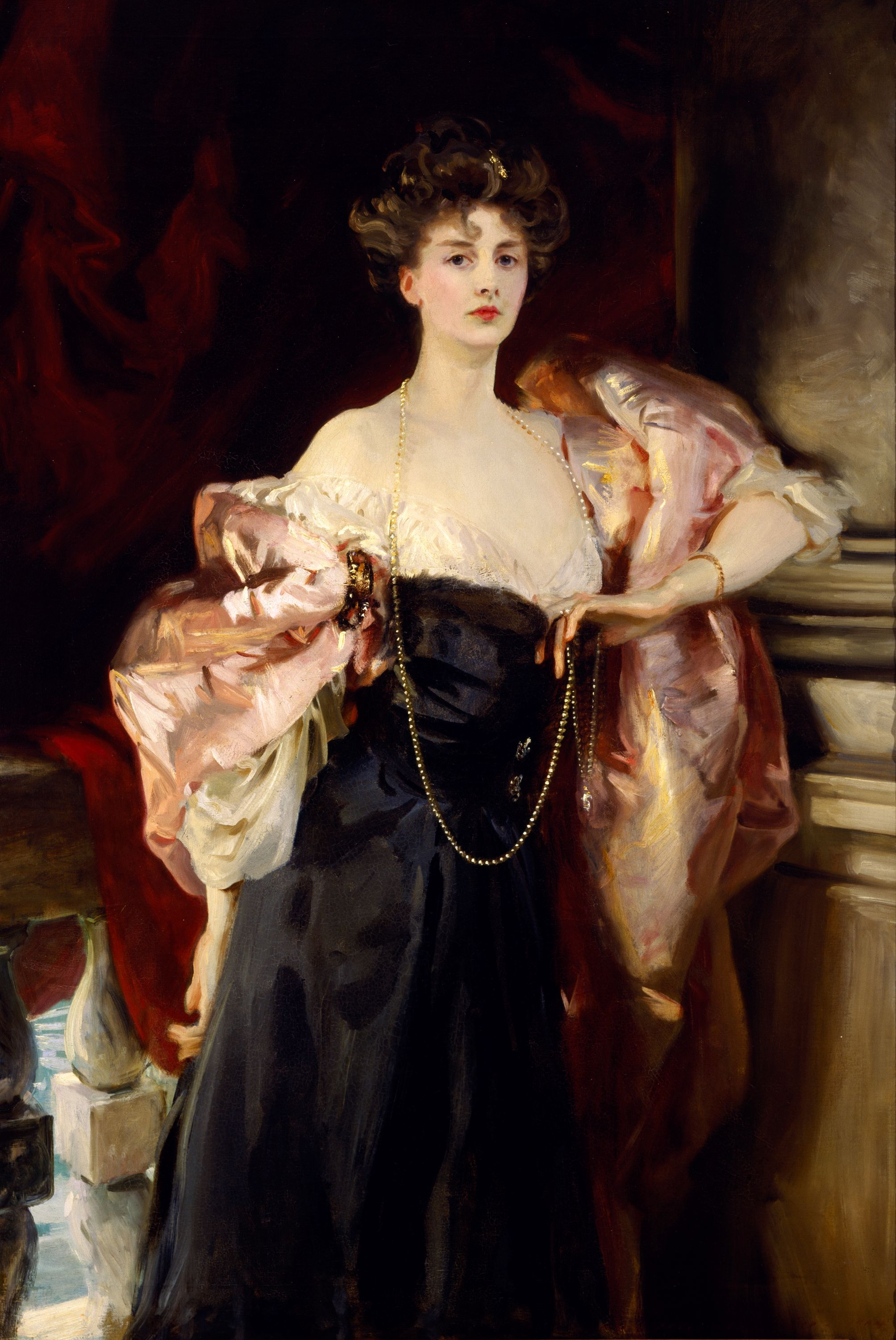 Portrait of Lady Helen Vincent in Venice